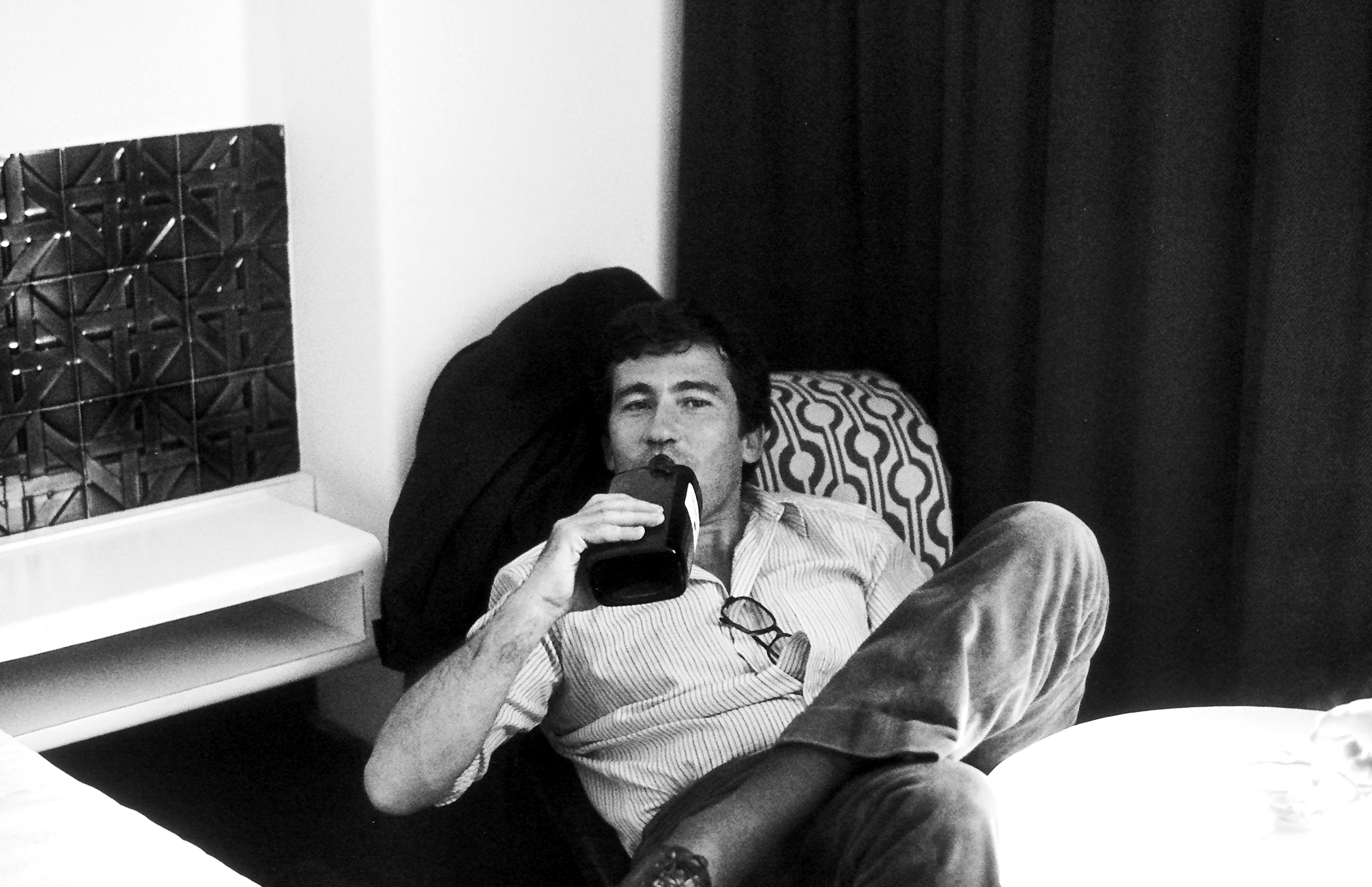 Escritor español, 1979